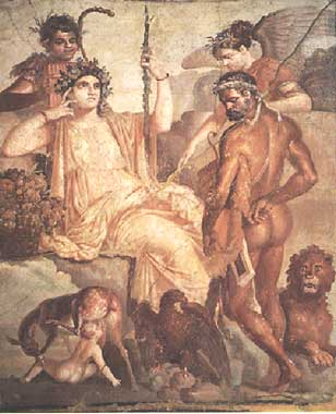 Allegory of Heracles with baby Telephus suckled by the doe: fresco from Herculaneum, 1st century CE (Museo Archeologico Nazionale, Naples).